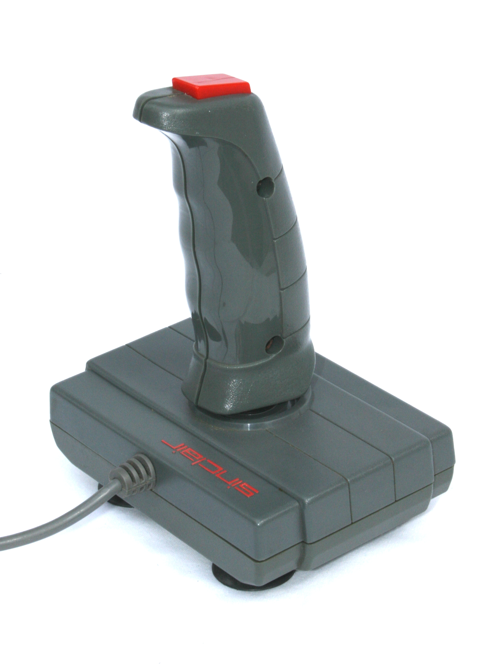 Sinclair SJS1 joystick.